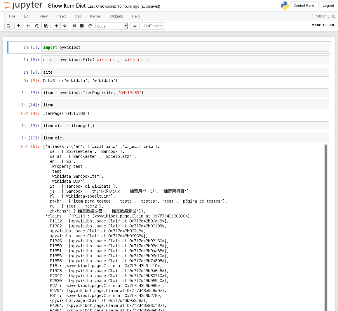 A screenshot showing a jupyter notebook on The content shows a Wikidata item being loaded and displaying the information it stores.